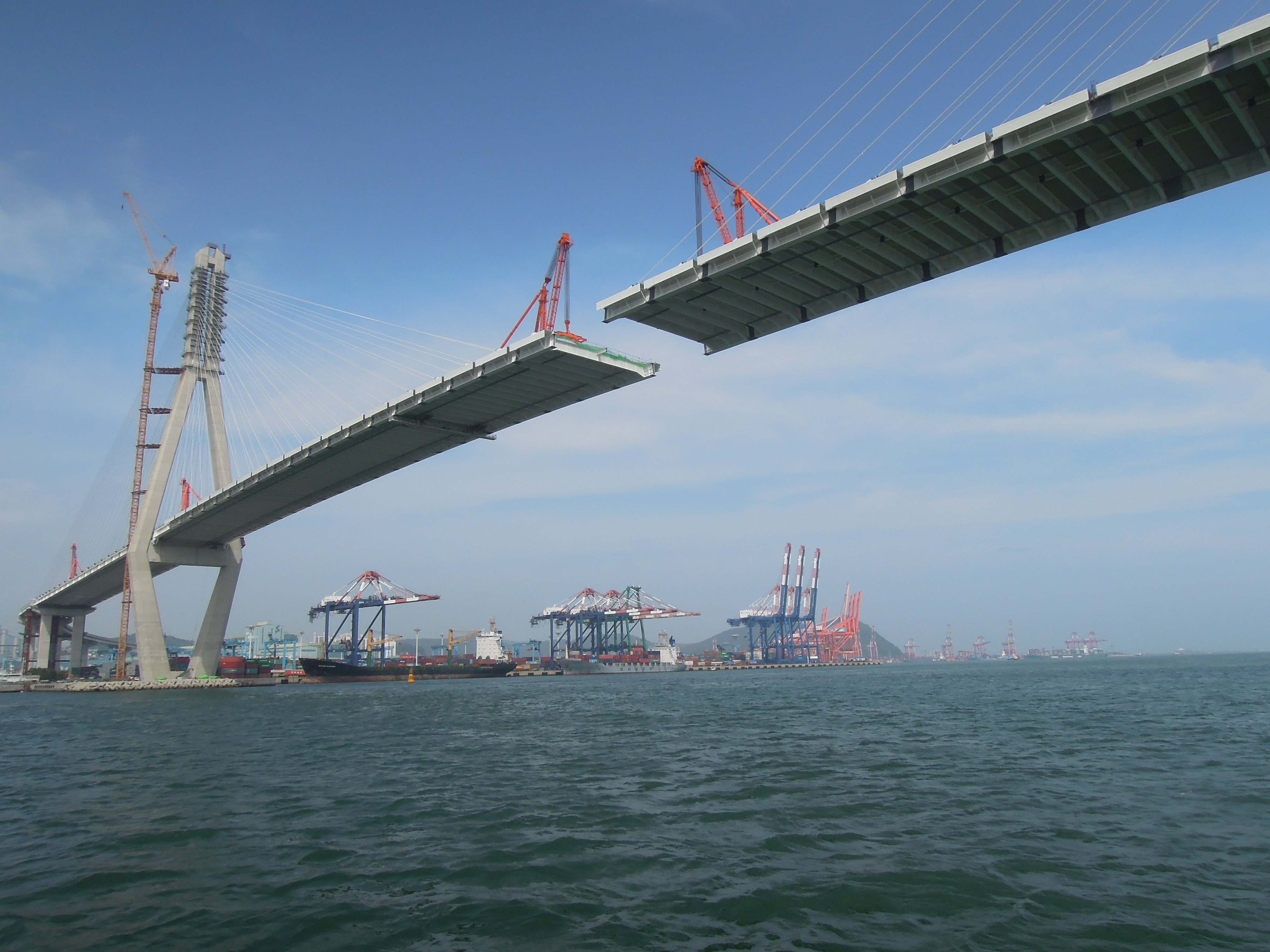 Bukhang bridge under construction view from Namhang